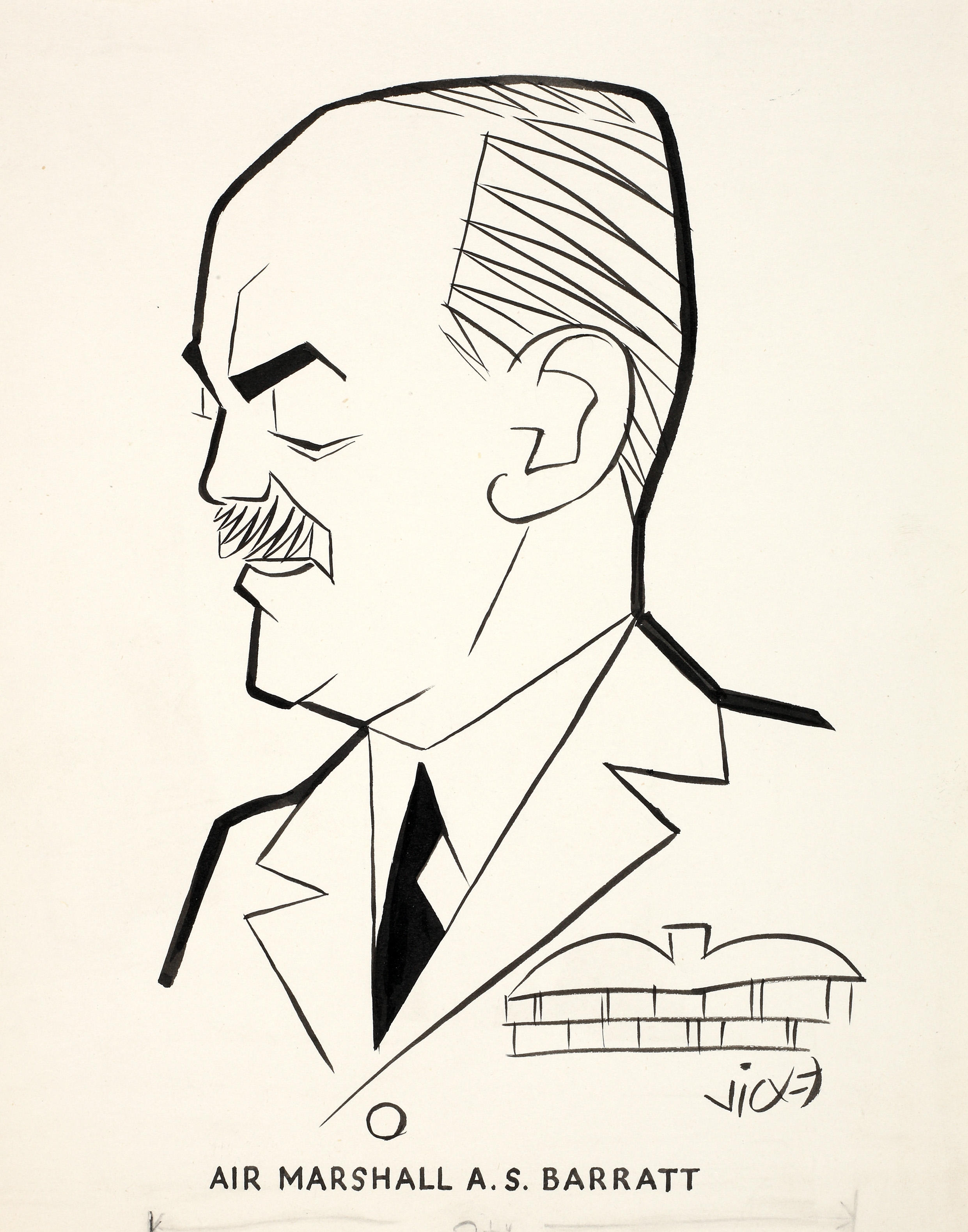 Air Marshall AS Barratt Depicted person: Arthur Barratt